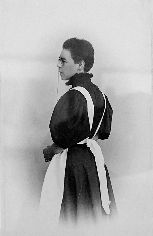 Self-portrait of Swedish photographer Lina Jonn (1861-1896)